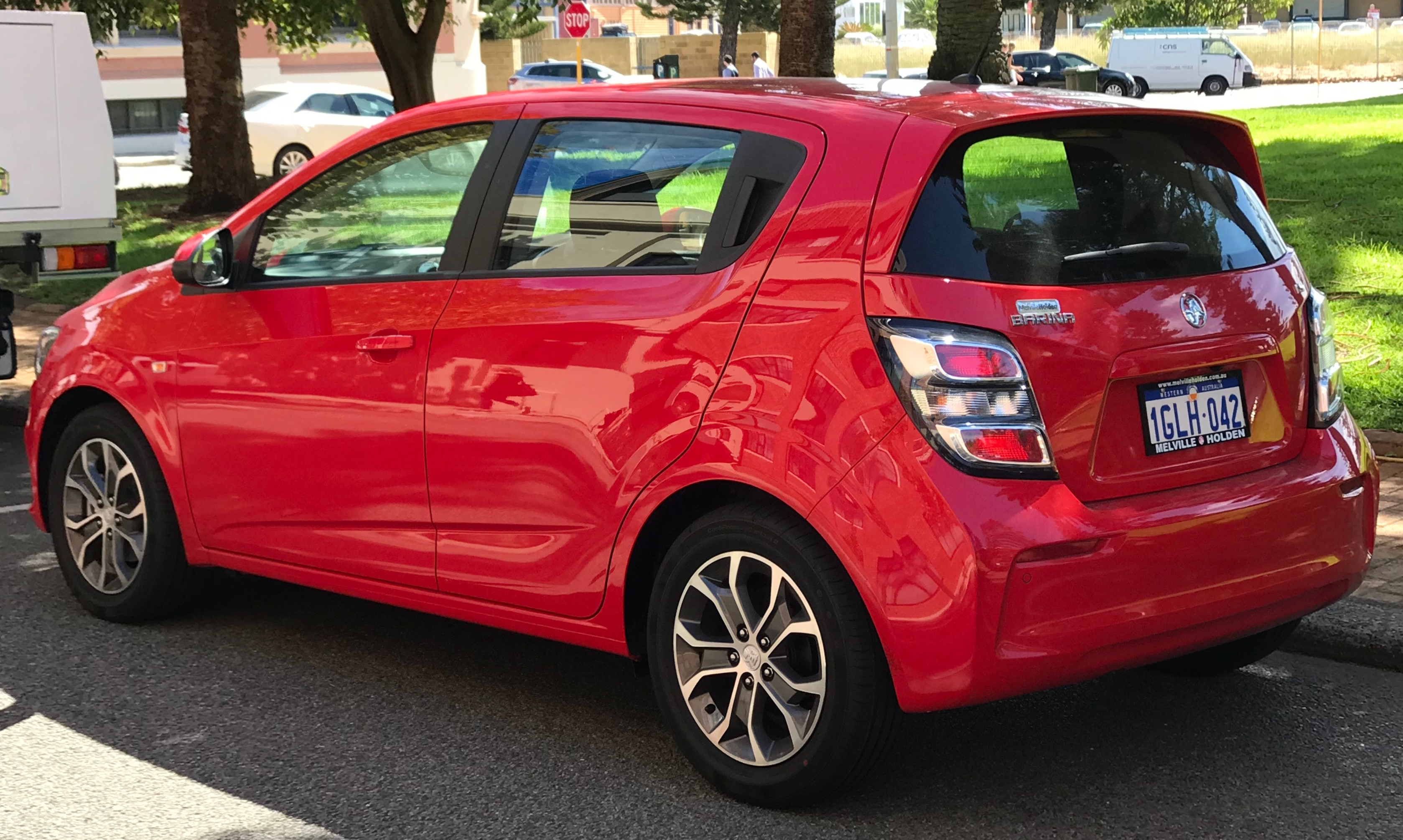 2018 Holden Barina (TM MY18) LS hatchback. Photographed in Fremantle, Western Australia, Australia.